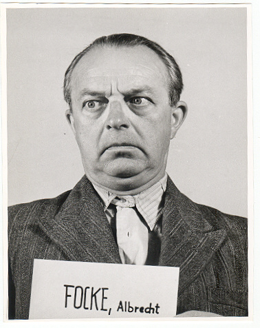 Albrecht Focke as a witness during the Nuremberg Trials.